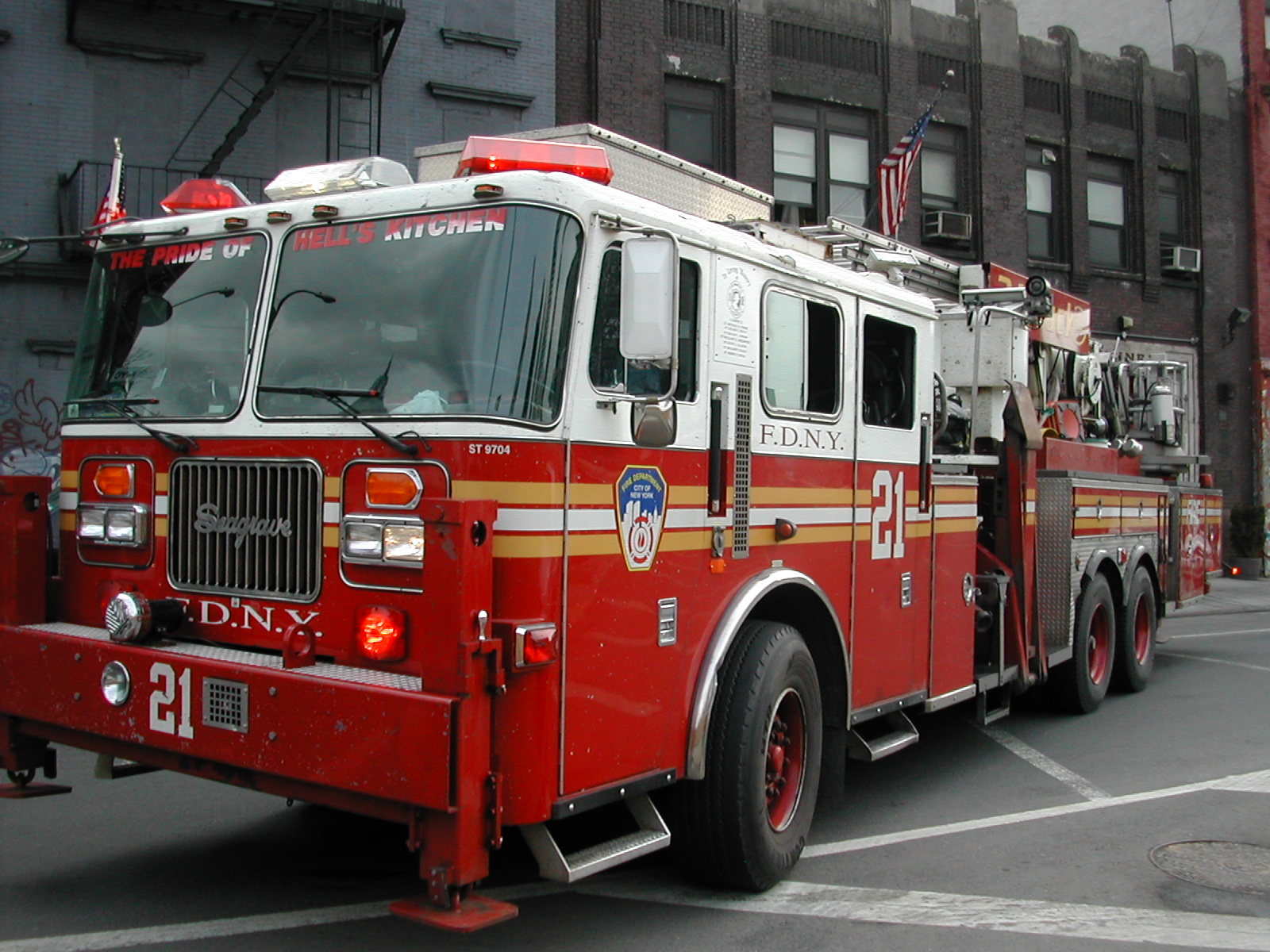 A 1997 Seagrave/Aerialscope 75' Tower Ladder used by the Fire Department of New York City.